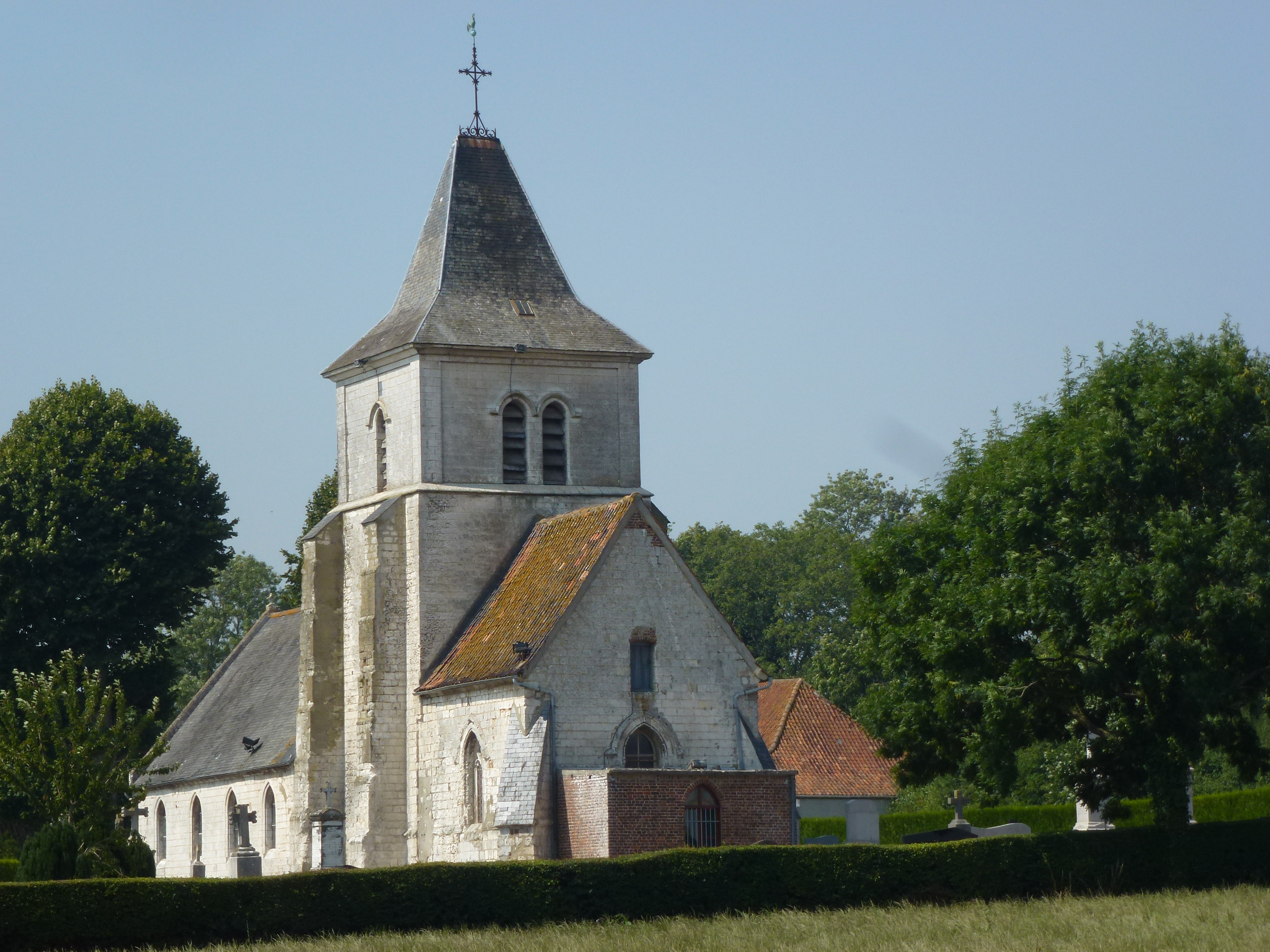 Sanghen (Pas-de-Calais) église